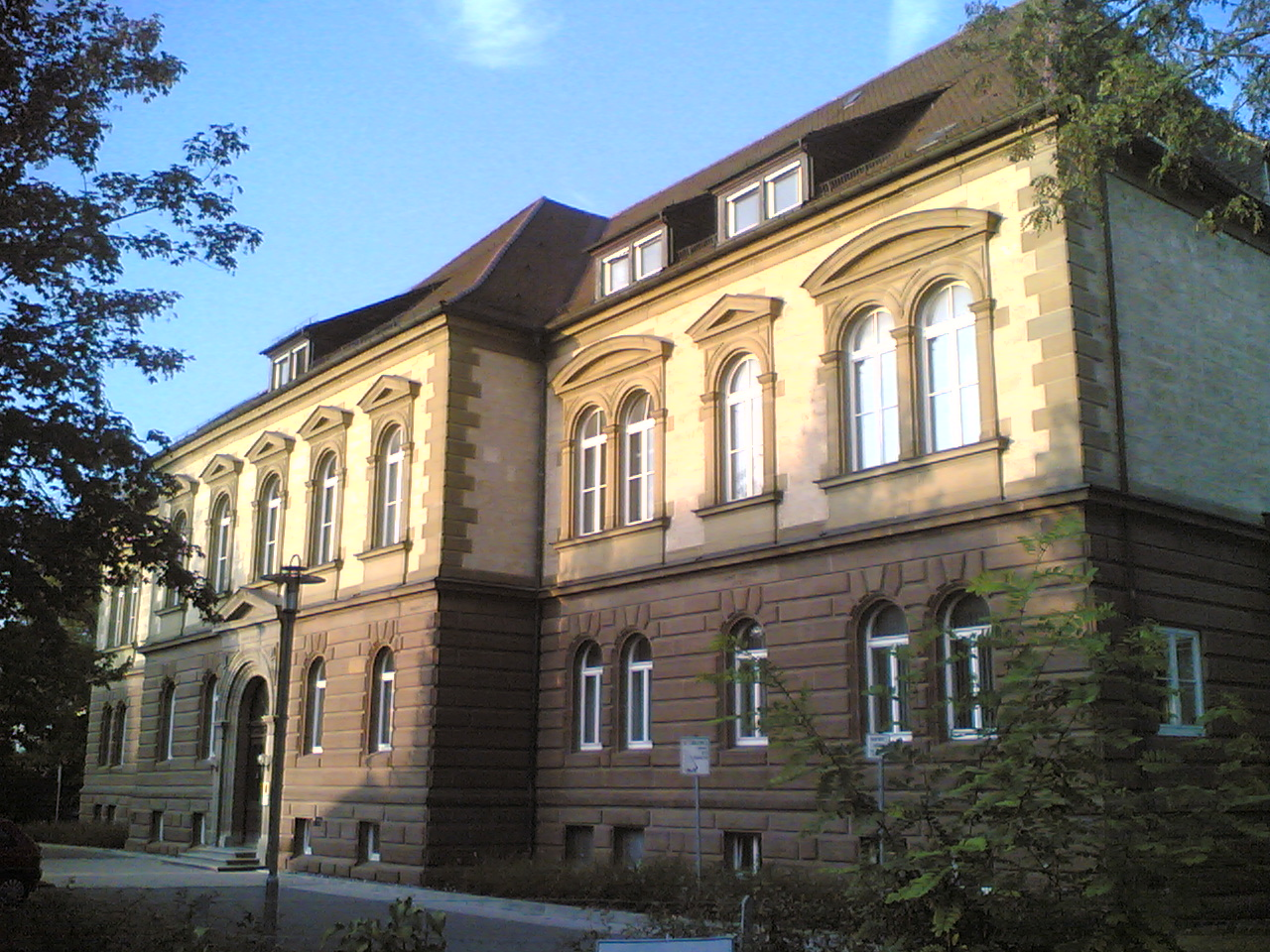 Local and District Court of Hechingen (civil and criminal court), Germany